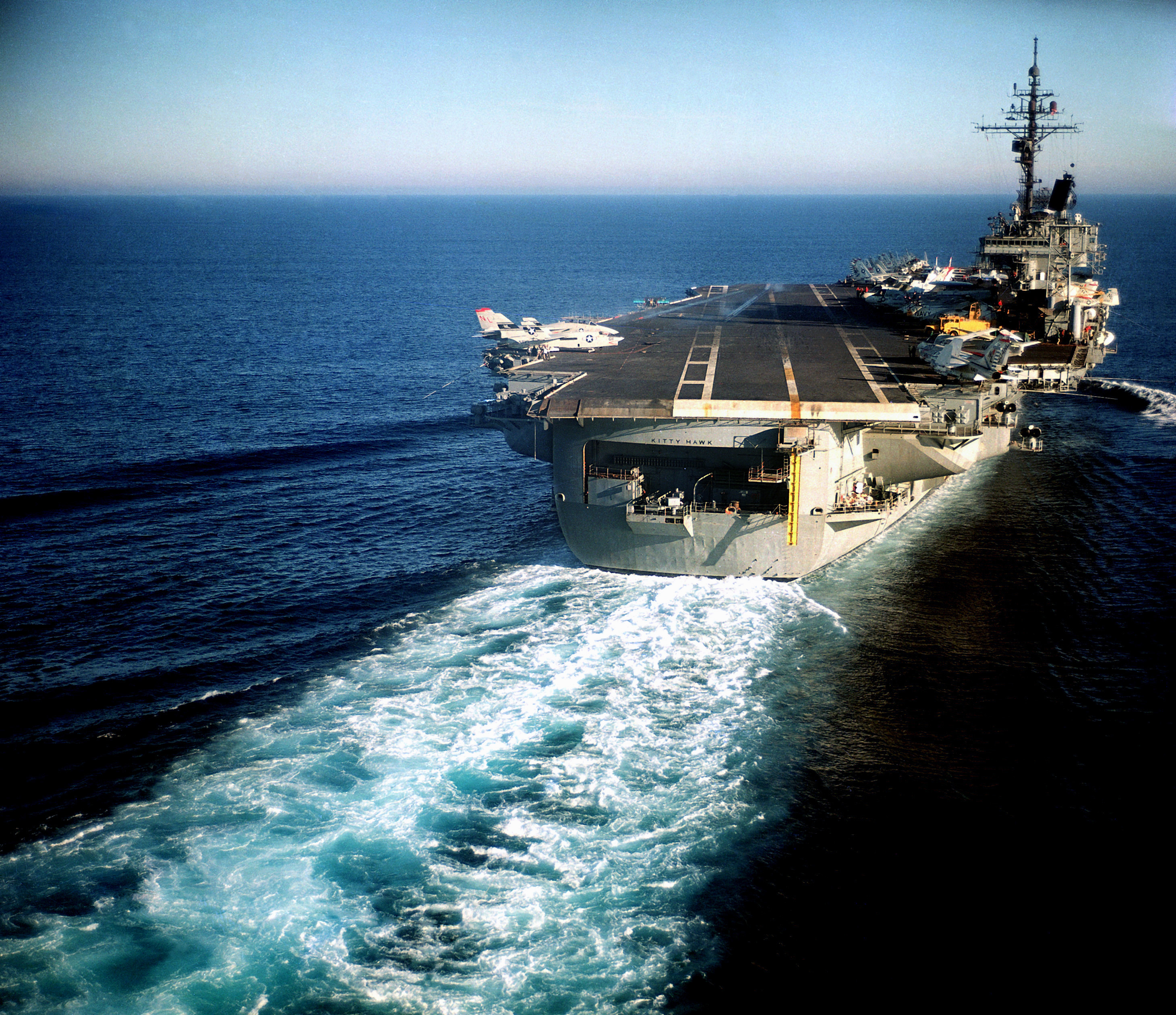 DN-SC-86-00162 An elevated starboard quarter view of the aircraft carrier USS KITTY HAWK (CV 63) underway.